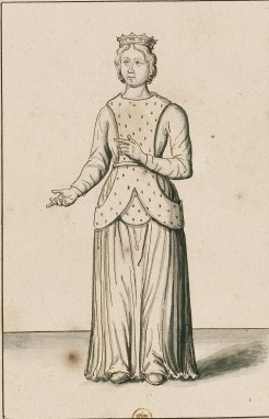 Valintina Visconti